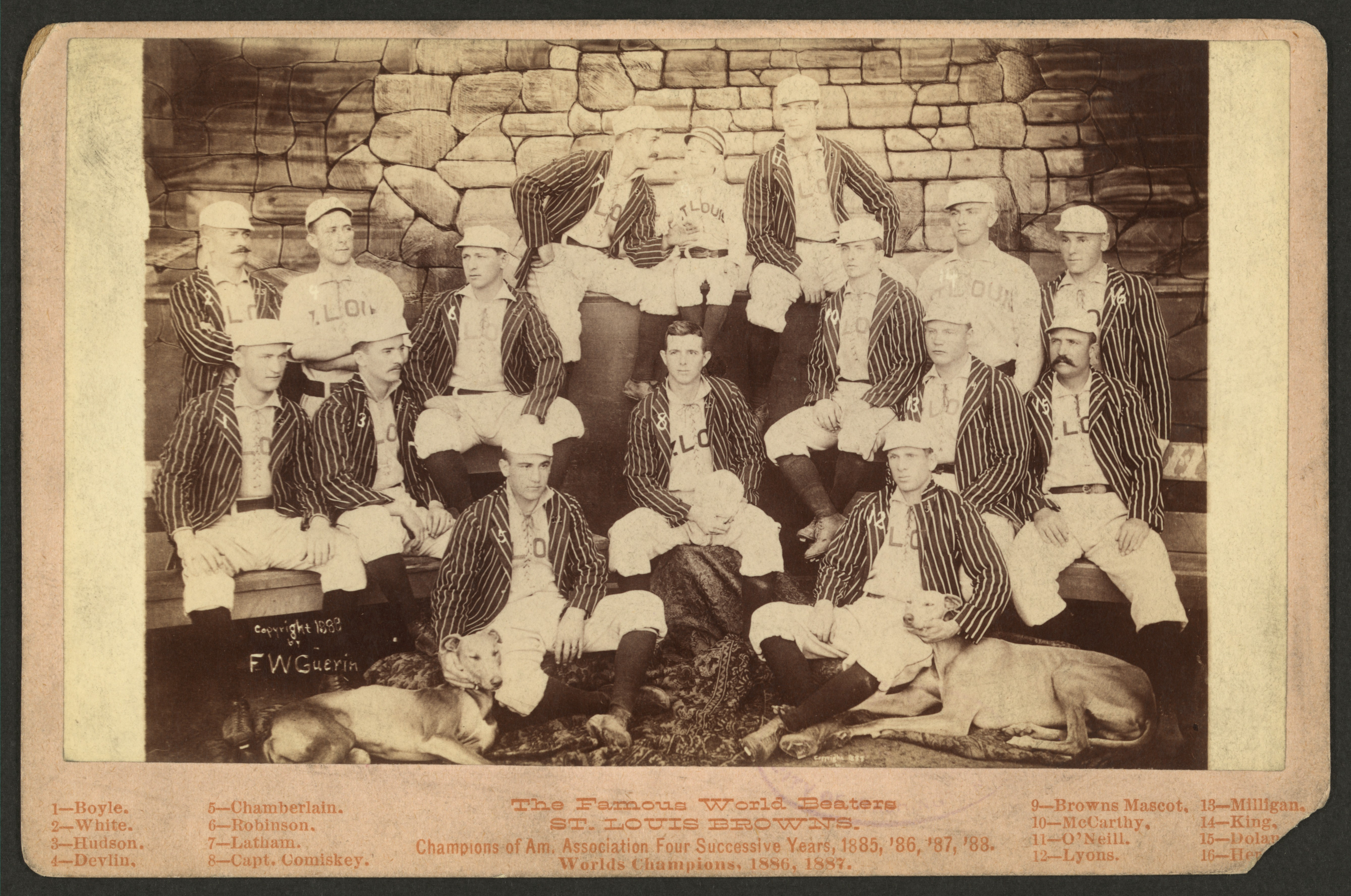 Photograph shows a team portrait of the St. Louis Browns baseball team in 1888, with players seated, each wearing a striped coat over their baseball uniform; includes a young boy, the "Browns Mascot", seated in the back row between two players, and two dogs in the foreground. Each player is numbered, which corresponds to a numbered identification key printed on the card mount below the photograph. Caption continues: Champions of Am. Association four successive years, 1885, '86, '87, '88. World Champions, 1886, 1887. Players include: Jack Boyle, Bill White, Nat Hudson, Jim Devlin, Icebox Chamberlain, Yank Robinson, Arlie Latham, Captain Charlie Comiskey, Tommy McCarthy, Tip O'Neill, Harry Lyons, Jocko Milligan, Silver King, Tom Dolan, and Ed Herr. Top row, left to right: Arlie Latham, mascot, Tip O'NeillSecond row, left to right: Bill White, Jim Devlin, Yank Robinson, Tommy McCarthy, Silver King, Ed HerrThird row, left to right: Jack Boyle, Nat Hudson, Charles Comiskey, Jocko Milligan, Tom DolanBottom row, left to right: Ice Box Chamberlain, Harry Lyons